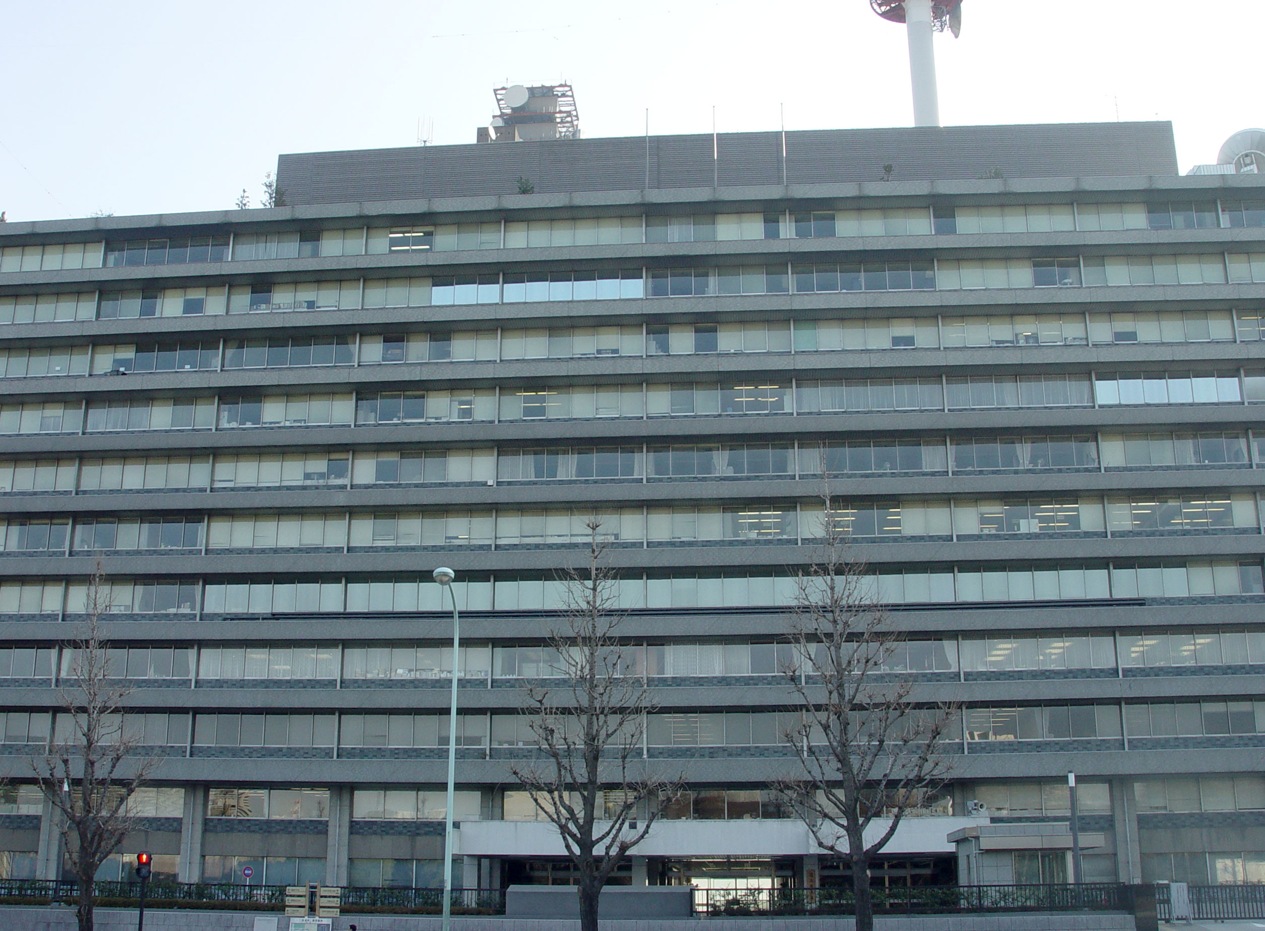 Public office building of the Ministry of Land, Infrastructure and Transport; and The Japan Coast Guard 国土交通省、海上保安庁庁舎